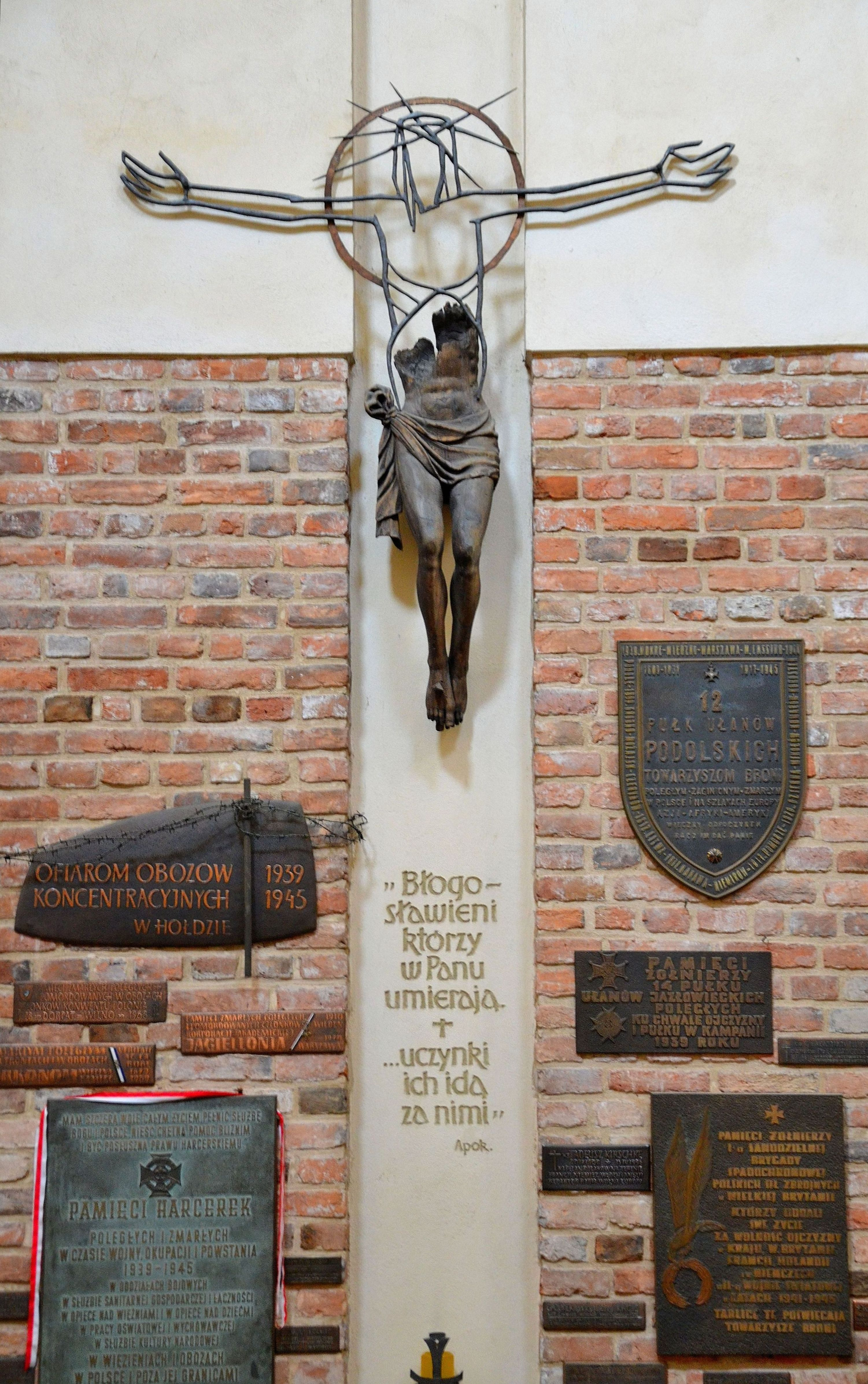 Crucifix in Sain Martin church in Warsaw